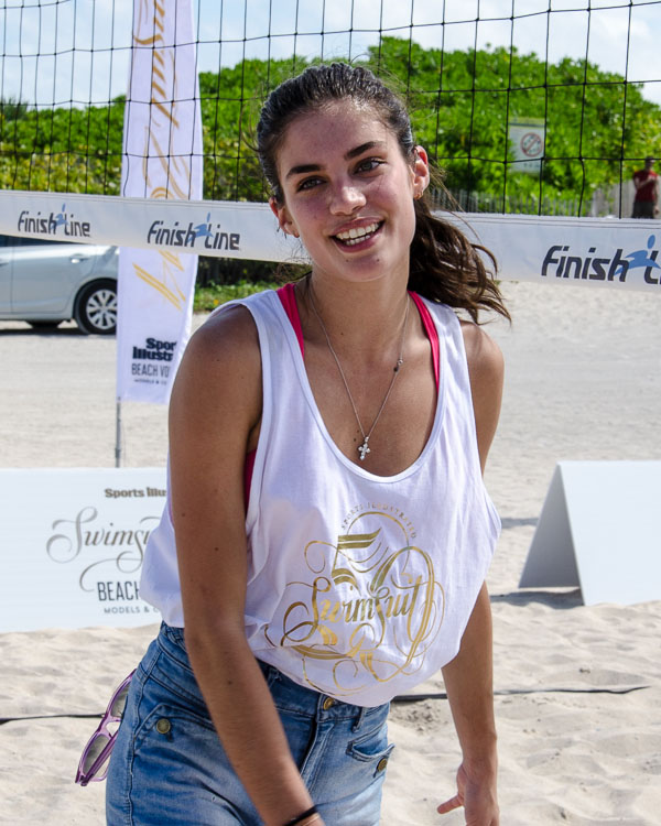 Sara Sampaio in 2014.